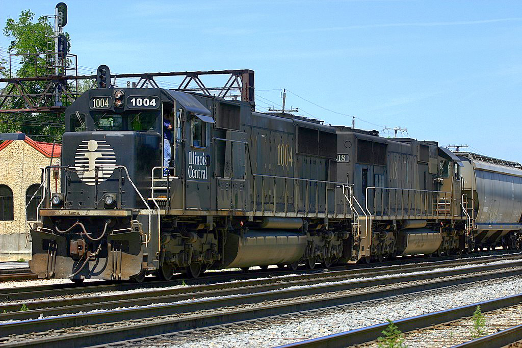 IC classic at Homewood Illinois Central Railroad 1004, EMD SD70